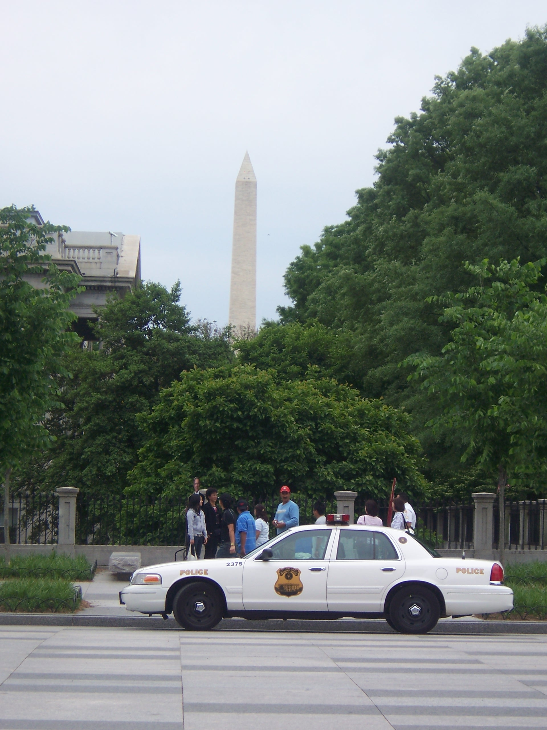 A police car parked in front of the white house with the washington monument looming in the background/